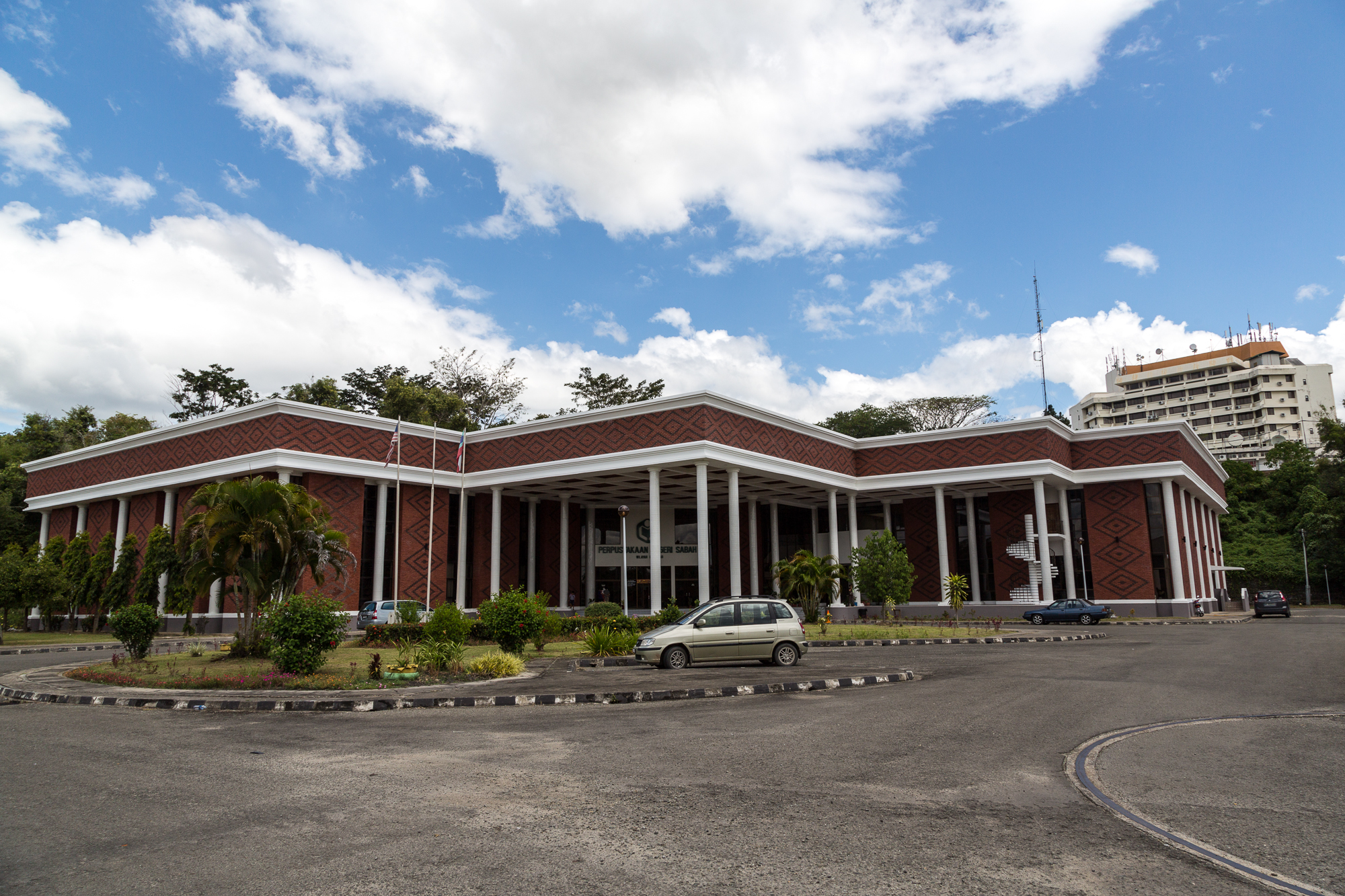 Keningau, Sabah: Regional Library (Perpustakaan Wilayah Keningau)